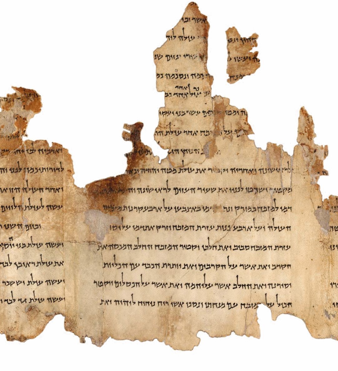 Portion of the Temple Scroll, labeled 11Q19, one of the longest of the Dead Sea Scrolls.